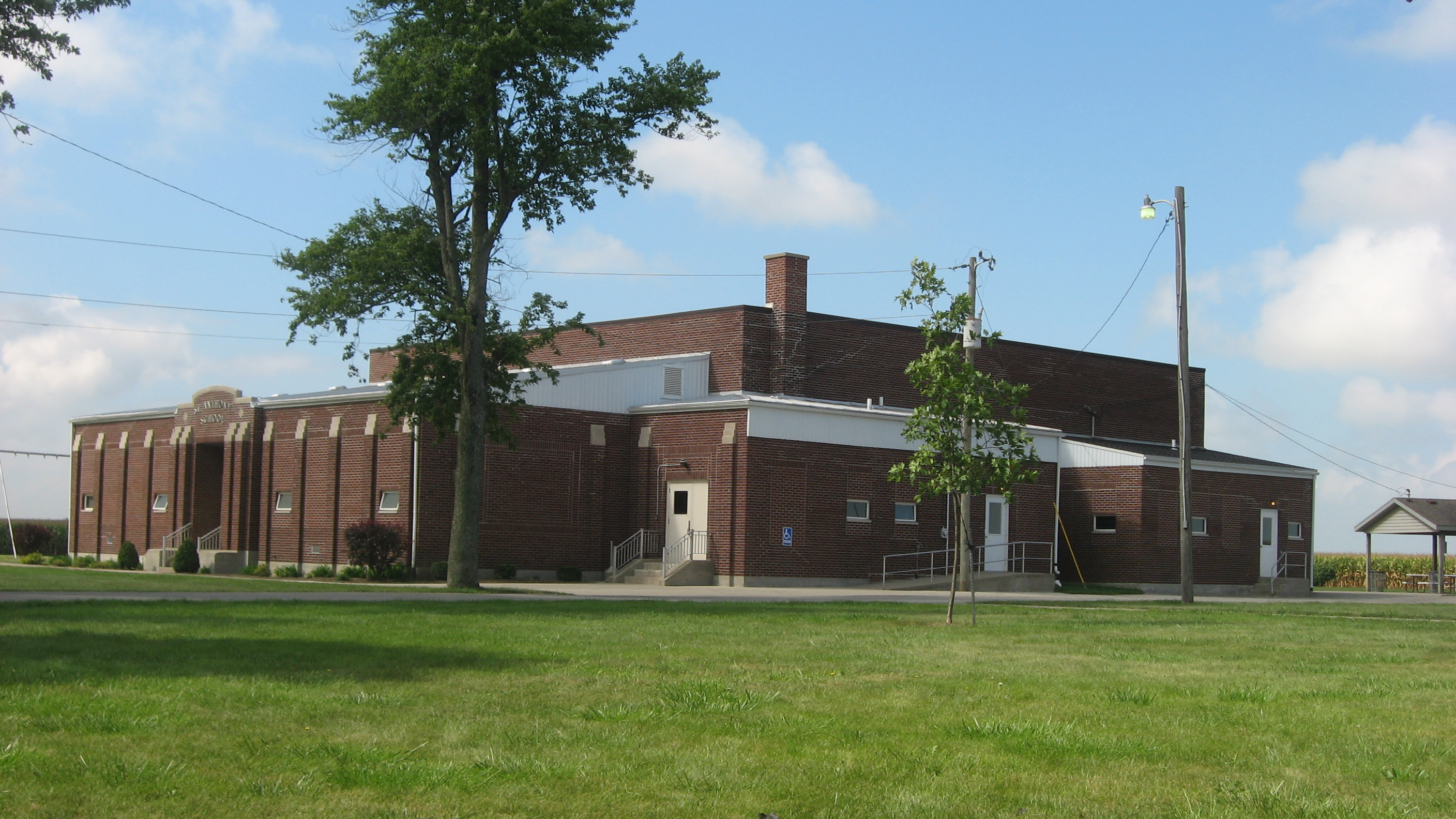 Front of St. Anthony's Catholic School, located on the southwestern corner of the intersection of State Route 49 and St. Anthony Roads in Padua, an unincorporated community in Recovery Township, Mercer County, Ohio, United States. The school is connected to the adjacent St. Anthony's Catholic Church.